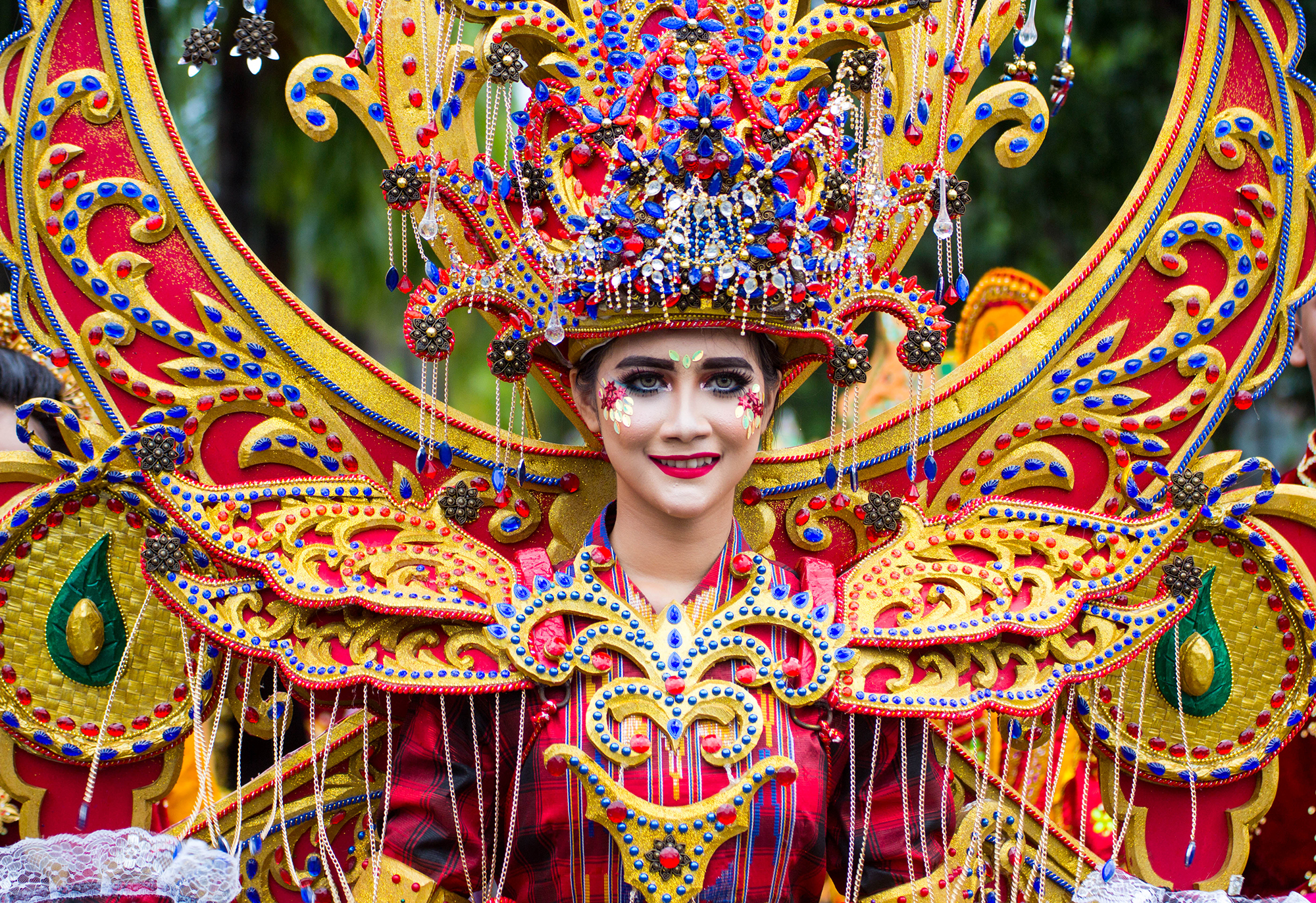 Ajang Sulawesi Tenggara (Sultra) Tenun Carnaval yang mempersembahkan dan memamerkan kekayaan tenun yang dimiliki Indonesia khususnya di daerah Sulawesi Tenggara merupakan upaya melestarikan dan mengembangkan kreativitas tenun Sultra sebagai warisan budaya.